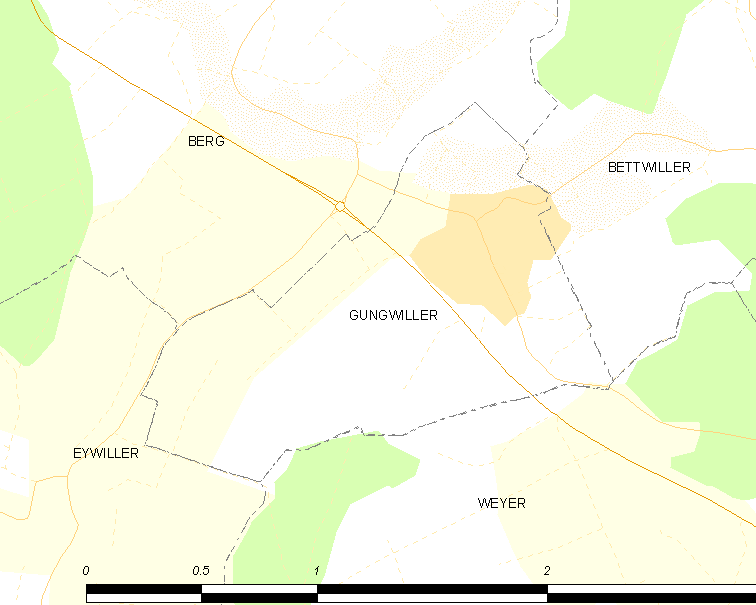 Map of French municipality